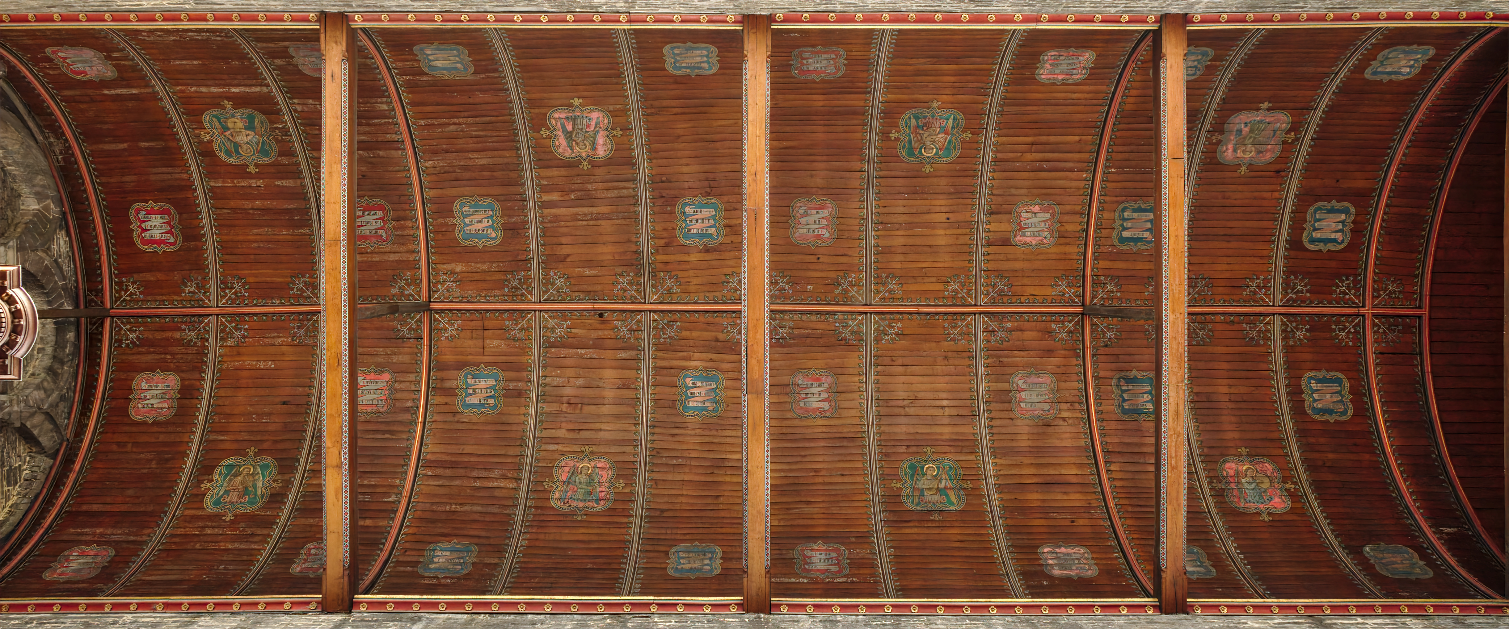 Ceiling of église Saint-Jacques, Tournai